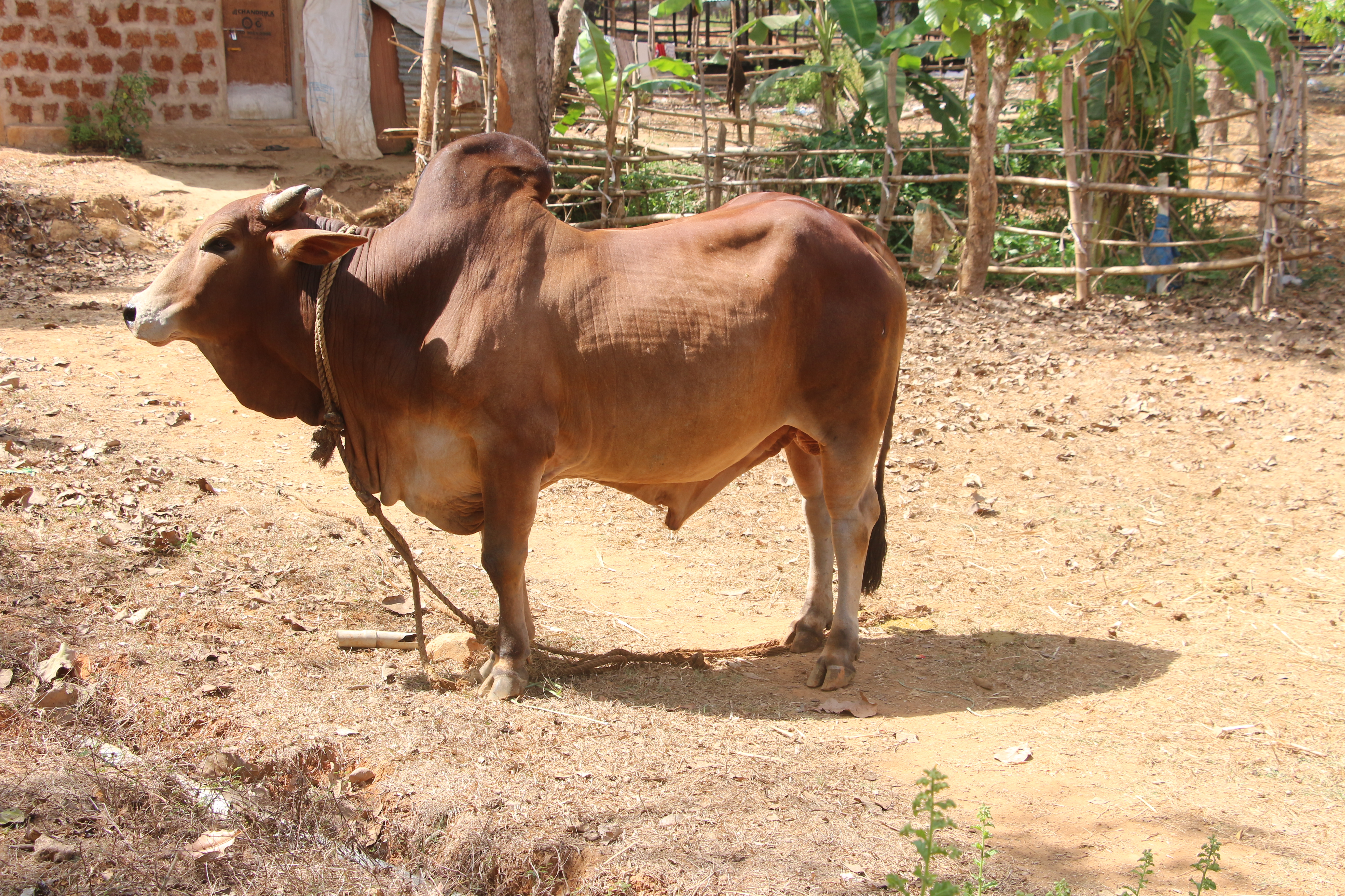 Indian cow breed Sahiwalaಕನ್ನಡ: ಭಾರತೀಯ ಗೋತಳಿ ಸಾಹಿವಾಲ